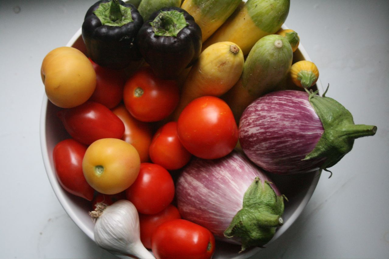 peppers, squash, garlic, tomatoes, eggplant